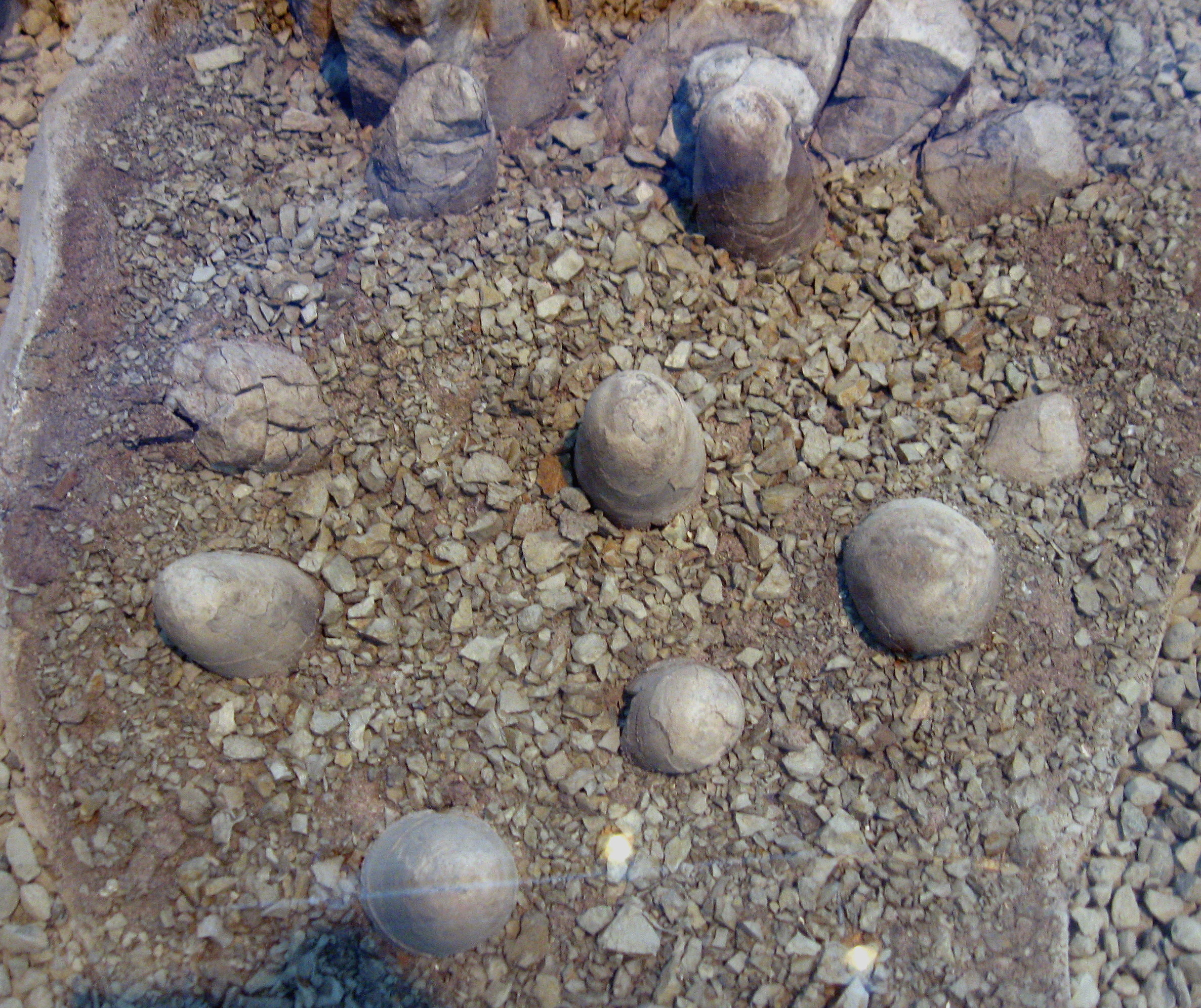 A clutch of Troodon formosus eggs partly encased in matrix. Museum of the Rockies specimen on loan o the Burke Museum. Photographed at Dinoday 2009.